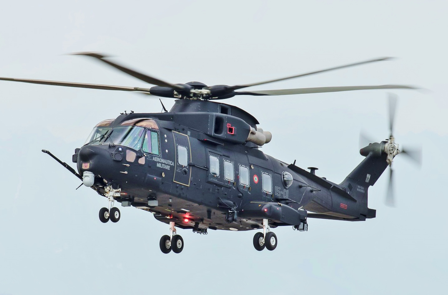 AgustaWestland HH-101A Caesar